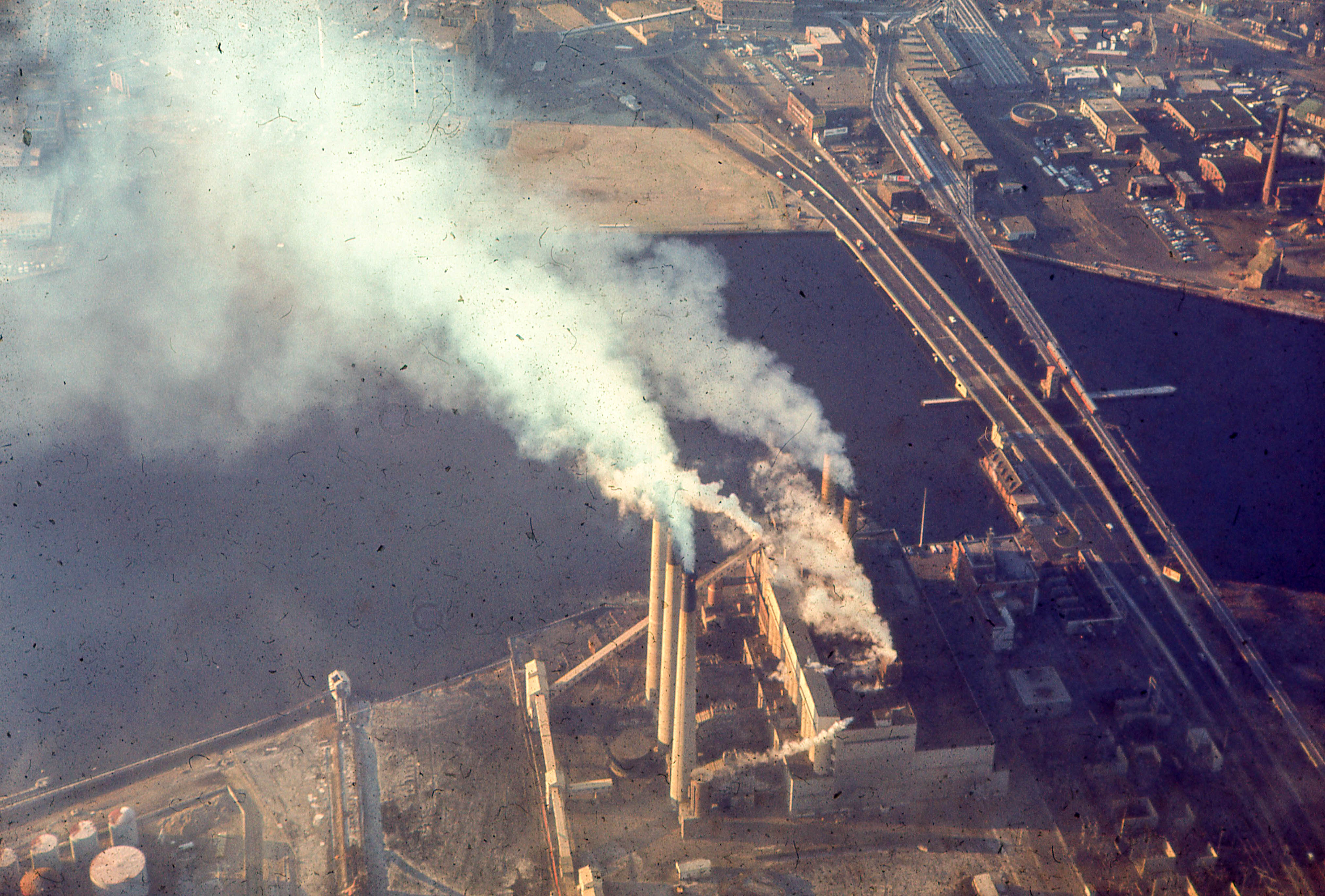 An aerial view of Mystic Generating Station between 1955 and 1969